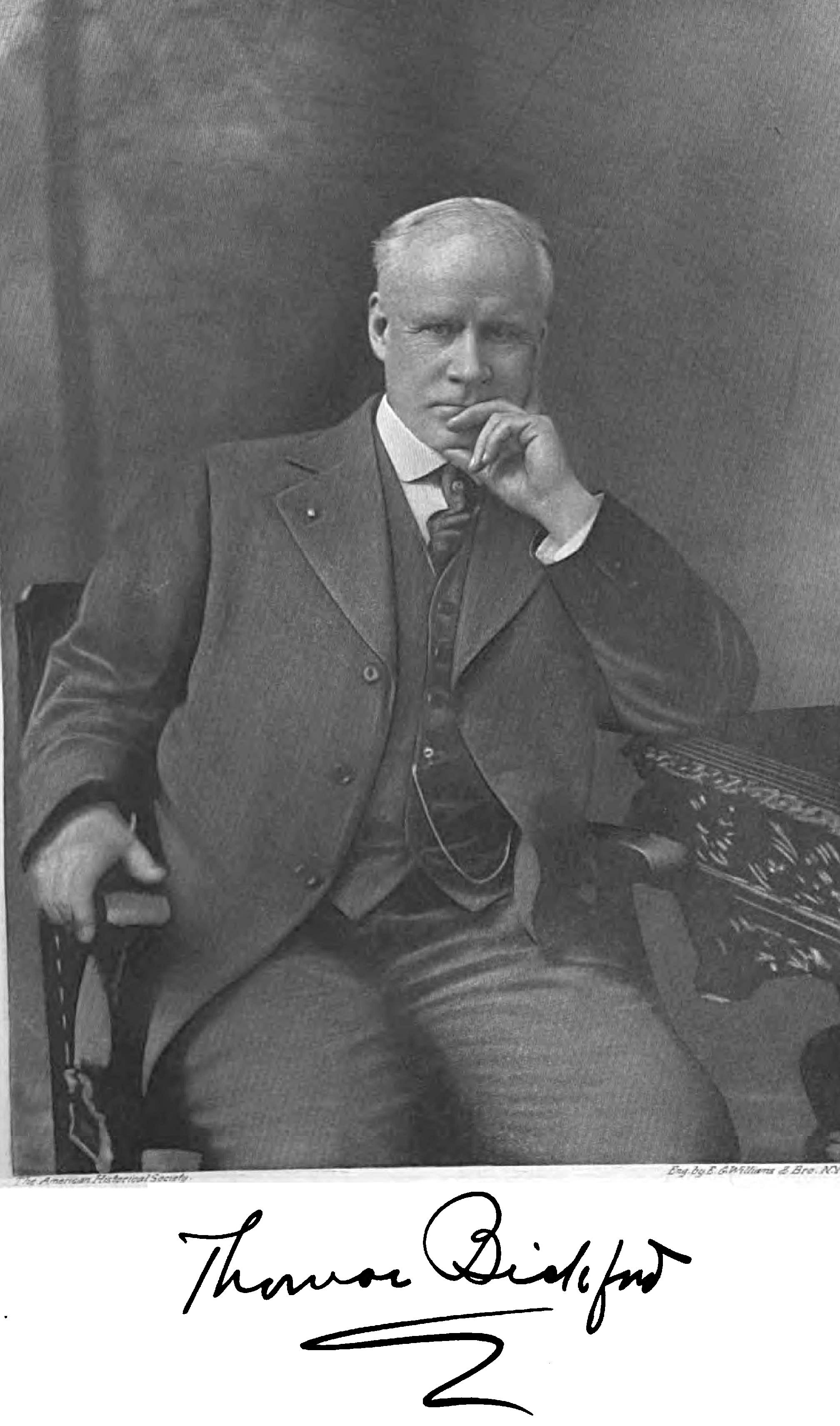 Thomas Bickford (Chelsea, MA, December 30, 1854 – Boston, MA, July 6, 1917) was an American educator, founder of Sea Pines School of Charm and Personality for Young Women in 1907. It continued until the 1970s.[1]